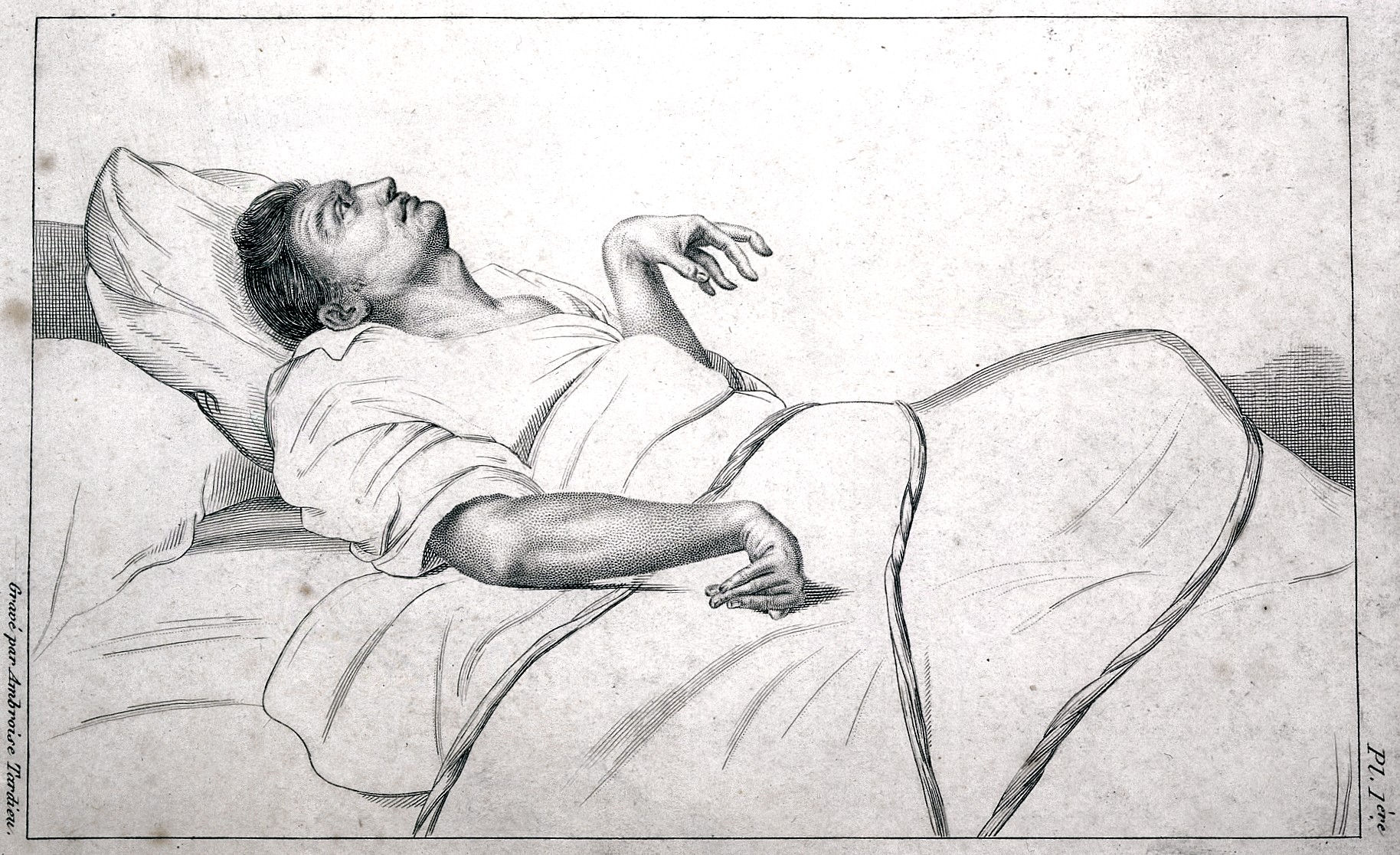 Epilepsy from an etching of the book «Des Maladies mentales considérées sous les rapports médical, hygiénique et médico-légal (About mental illnesses, concerned in medical, hygienic and forensic medical relations)» by Jean-Étienne Dominique Esquirol Rare Books Keywords: mental diseases; mental hospitals.; Jean Etienne Dominique Esquirol; Ambroise Tardieu